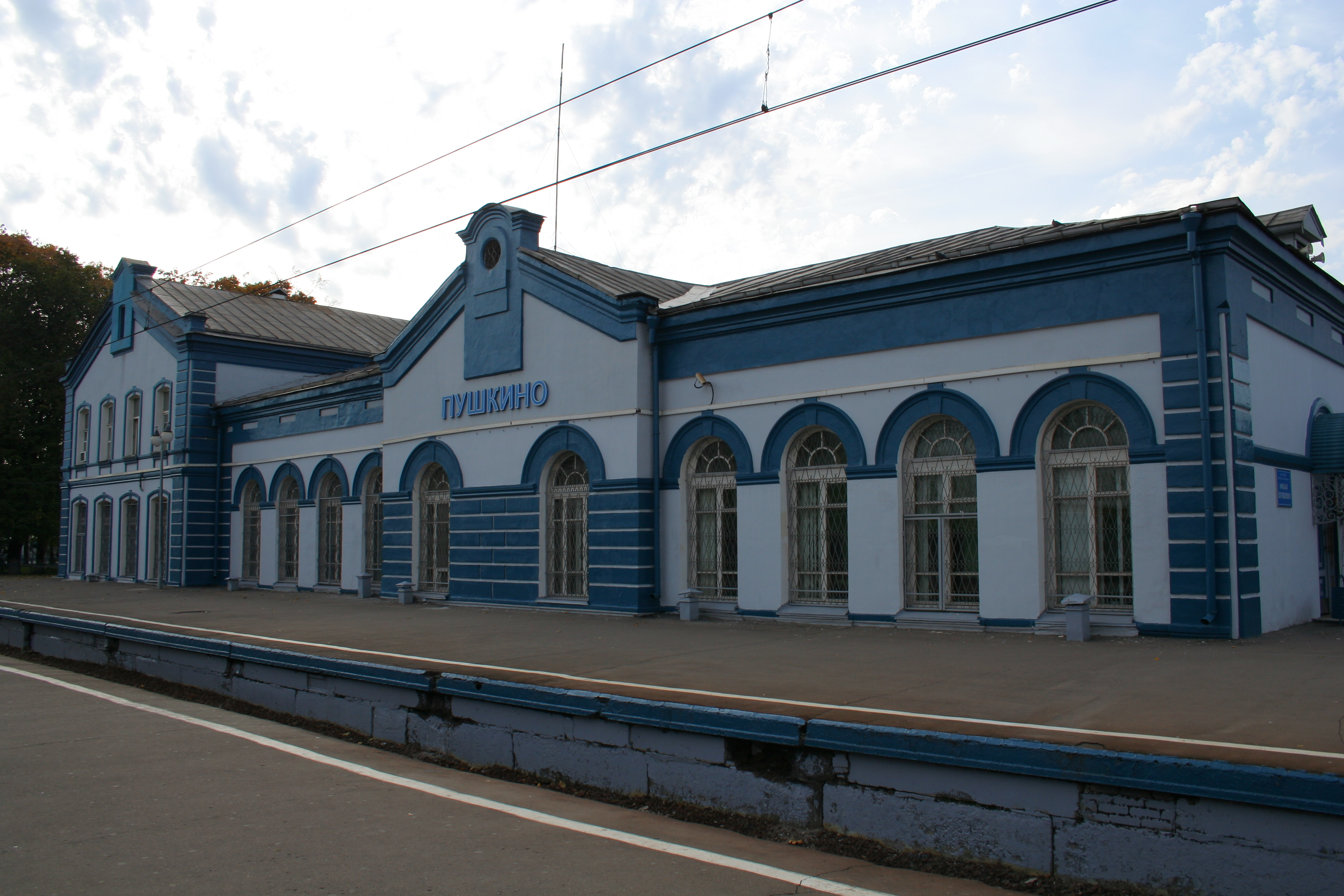 Train station Pushkino, Moscow Oblast